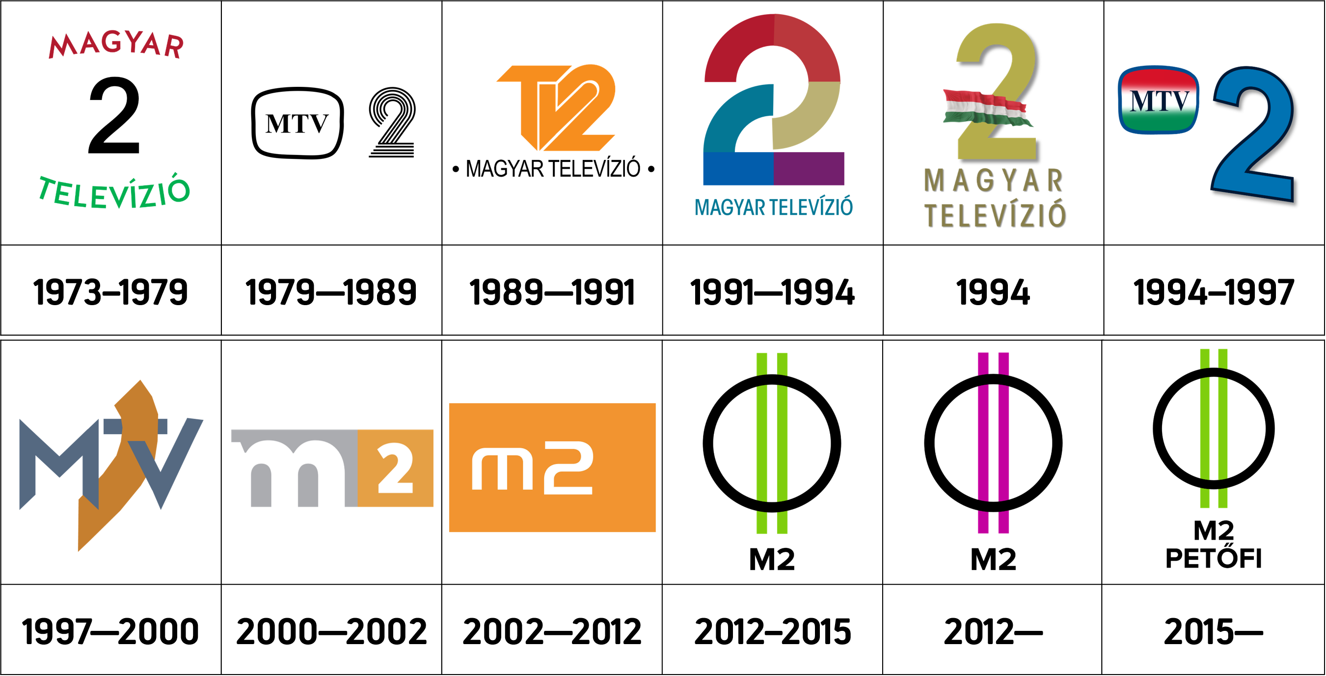 The logos used by M2, Hungarian public broadcaster since 1997.